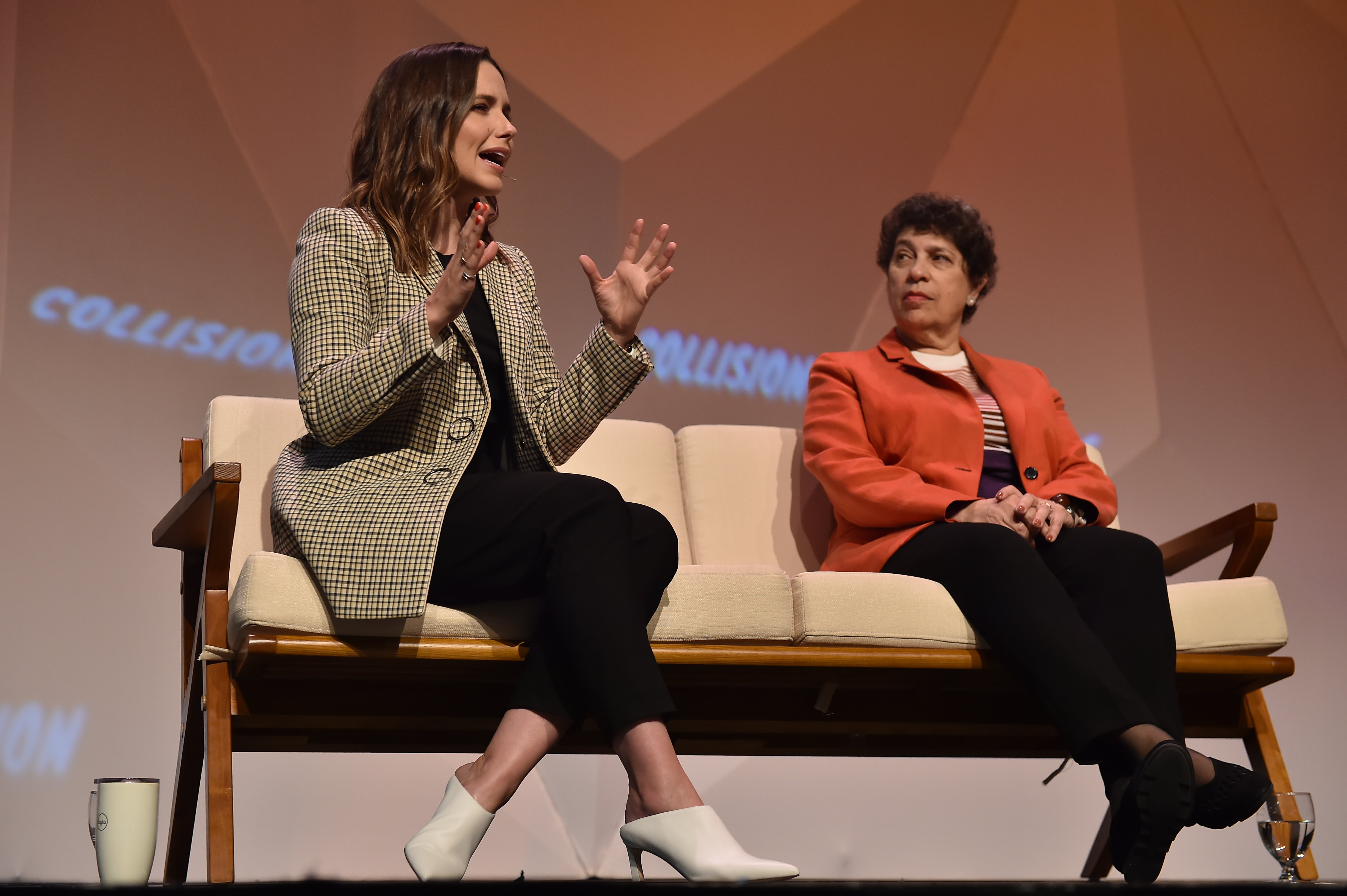 3 May 2018; From left, Sophia Bush, Activist, Actresson with Susan Herman, President, American Civil Liberties Union on centre stage during day three of Collision 2018 at Ernest N. Morial Convention Center in New Orleans. Photo by Seb Daly/Collision via Sportsfile